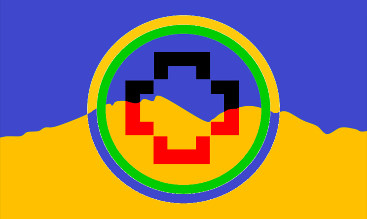 Proposal flag for Calama city (Chile)